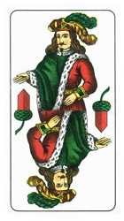 Saxonian deck - Unter of Acorns